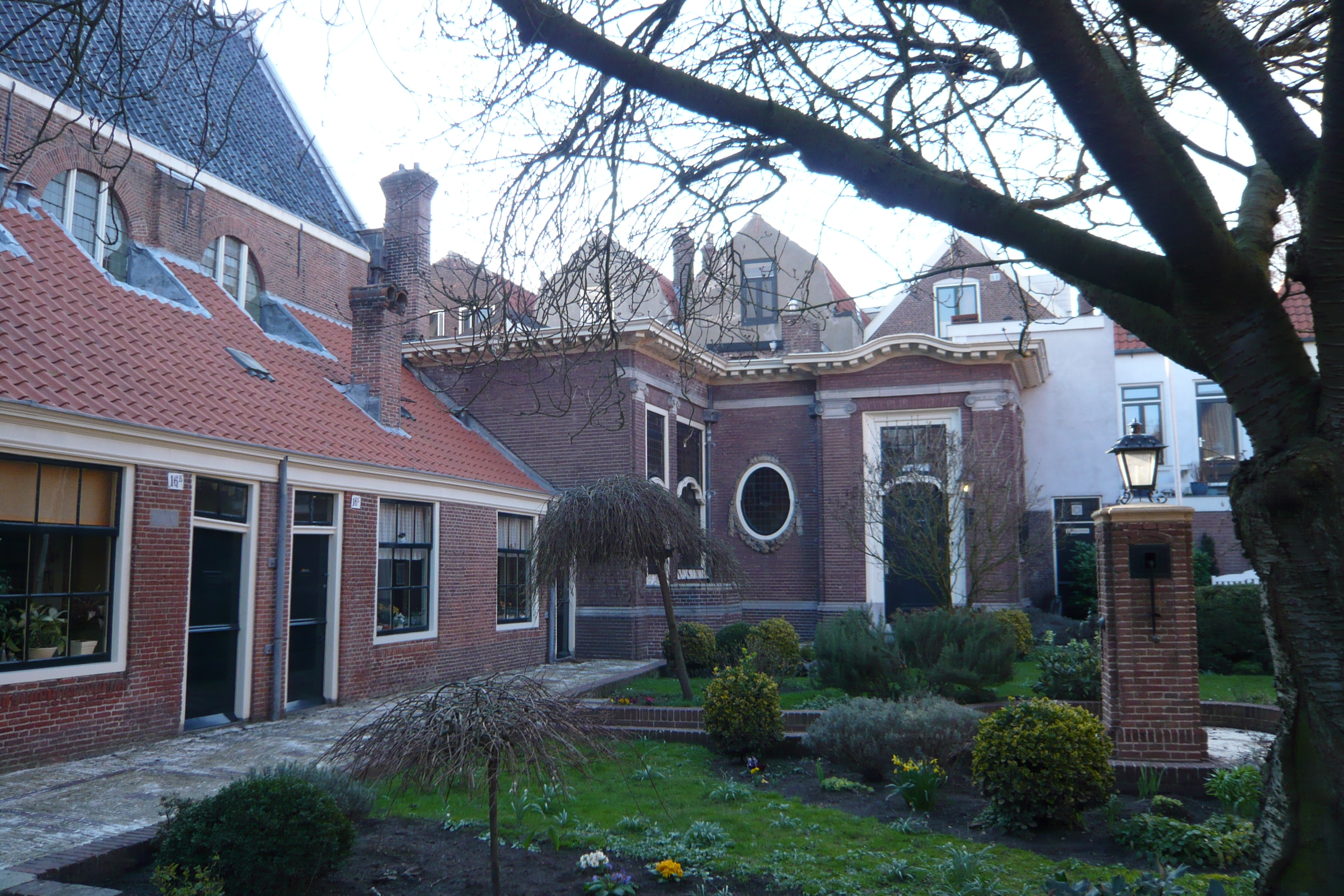 Inside Lutherse Hofje, with a view of the garden pump and original buildings built against the Lutheran Church. At the back of the garden is the outdoor pulpit and stairs leading to the Regent's room. Also in the back is a former keystone to the Lutheran orphanage, now defunct.